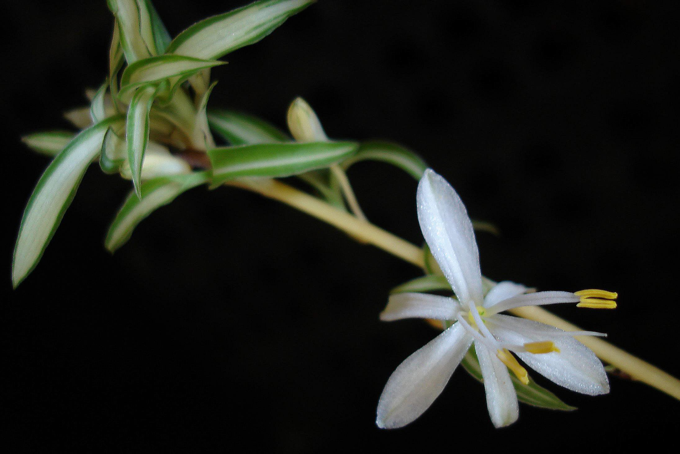 Flower of Chlorophytum comosum (Image:Clorofito.jpg)